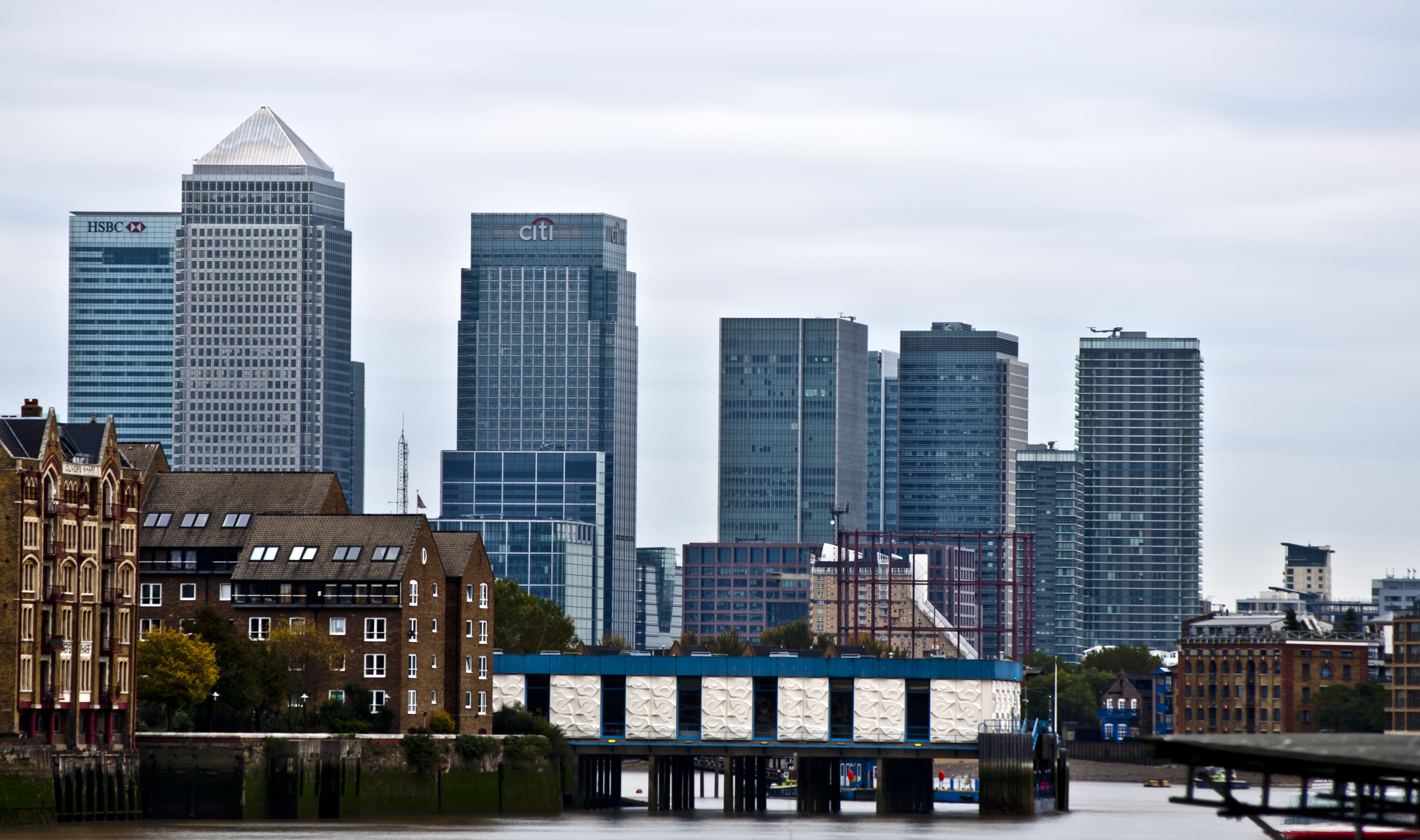 Tower Hamlets, 8 Canada Square, Canary Wharf, HSBC Tower, 25 Canada Square, Citigroup Centre, One Canada Square, Canary Wharf Tower, skyscrapers, skyscraper, urban photography